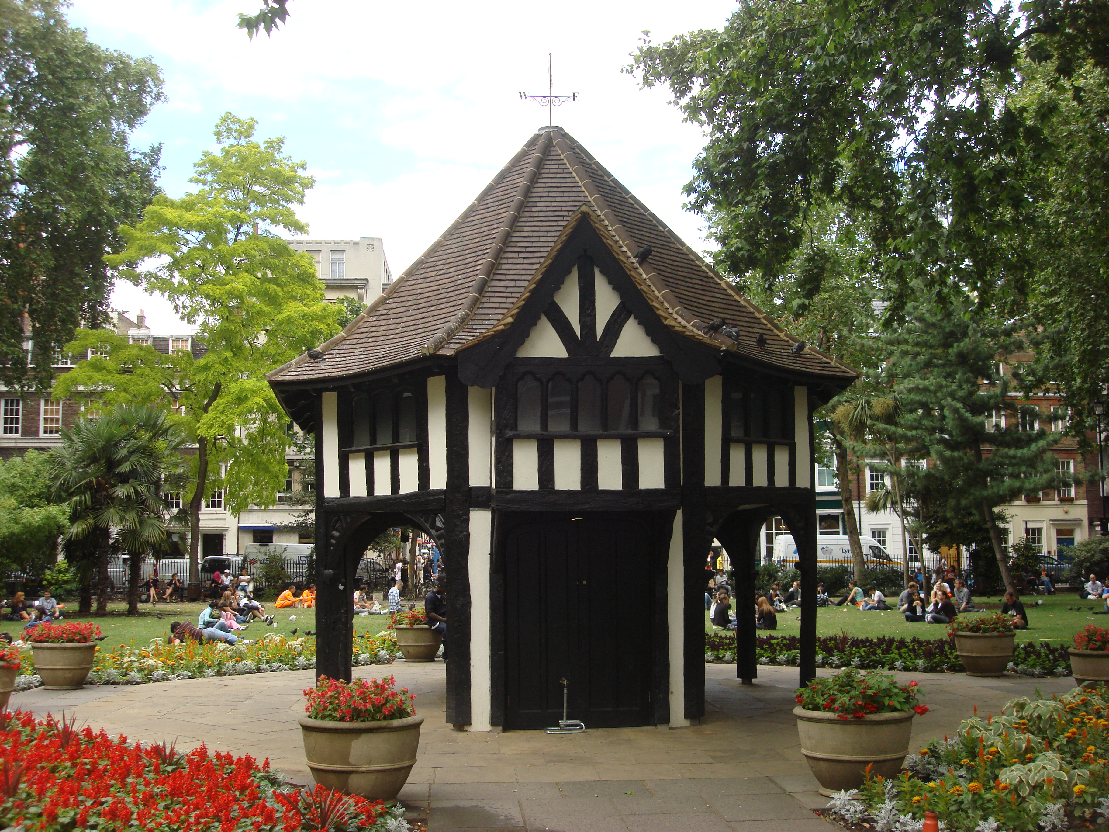 half-timbered gardener's hut Soho Square.